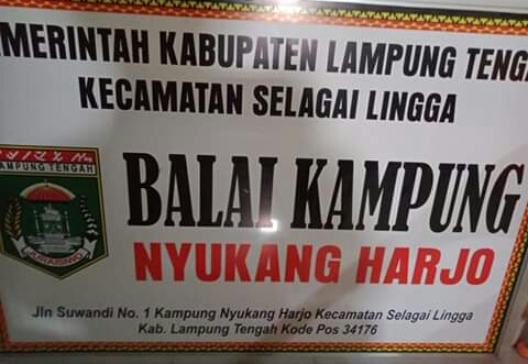 Jl. Suwandi